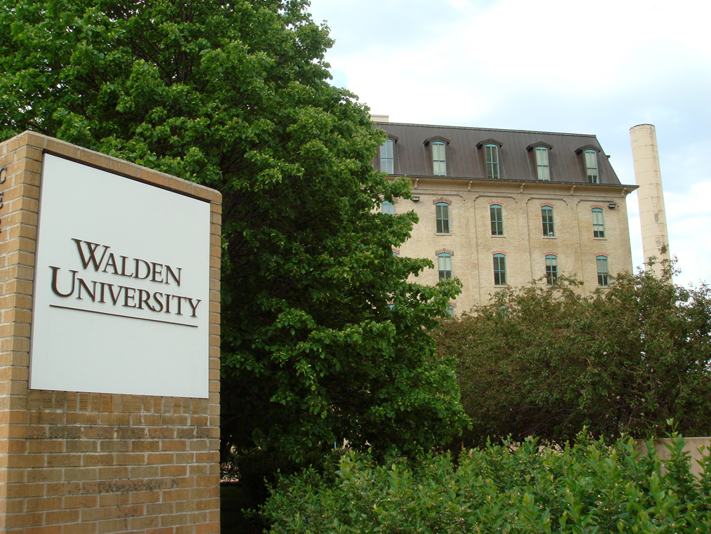 The headquarters of Walden University in Minneapolis, Minnesota's Mills District